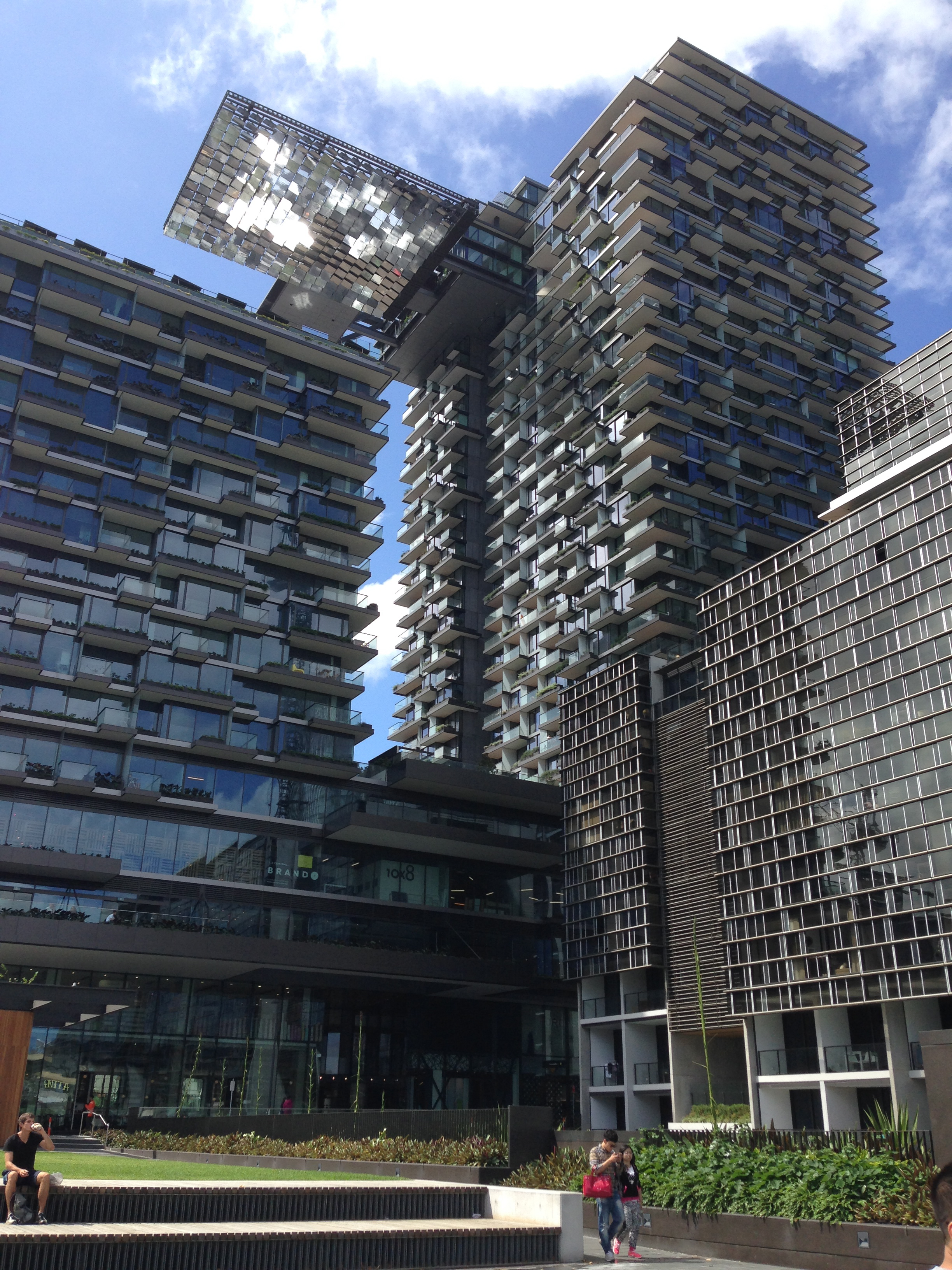 Central Park Sydney. The mirrors reflect light into the mall below.